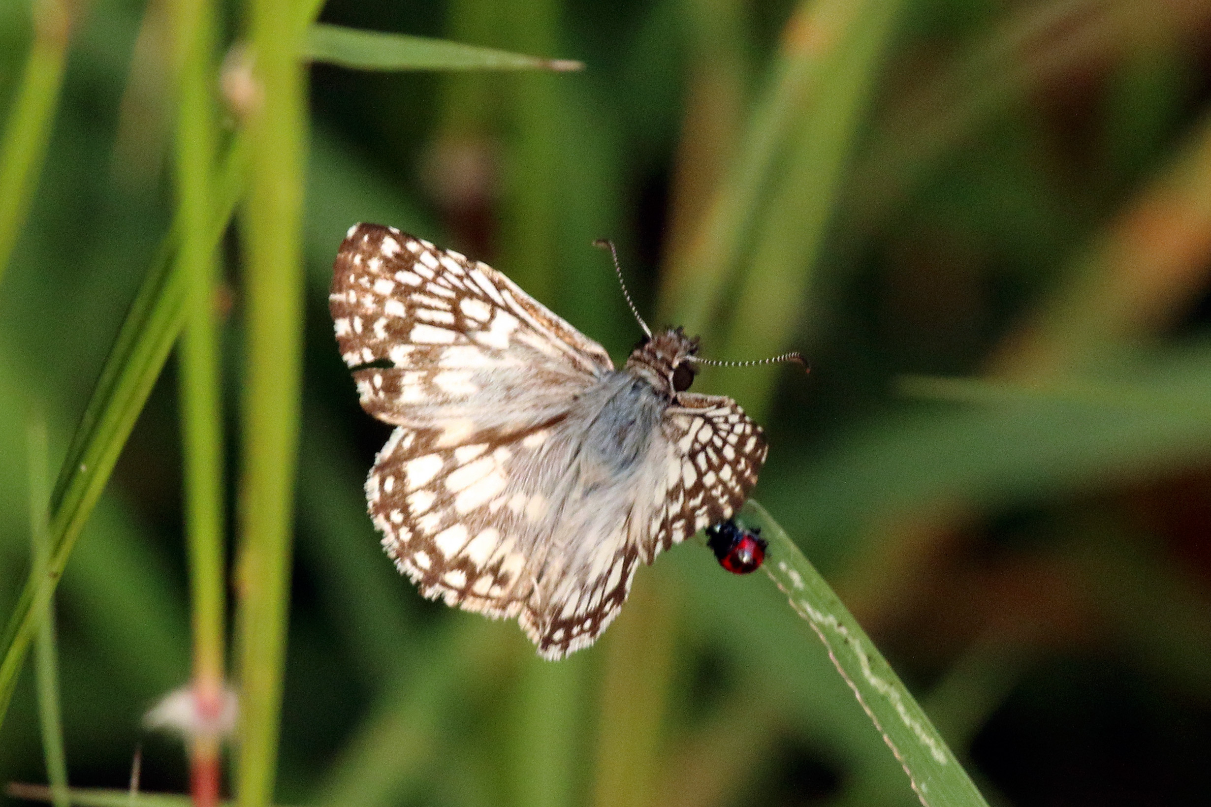 Tropical checkered skipper butterfly (Pyrgus oileus) female in Jamaica